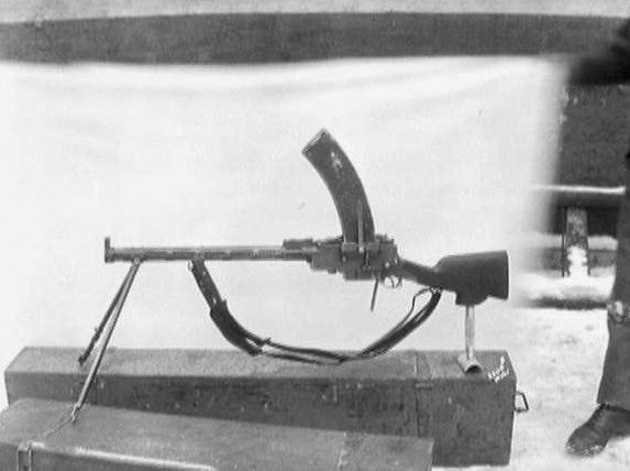 A Norwegian Army Madsen machine gun.